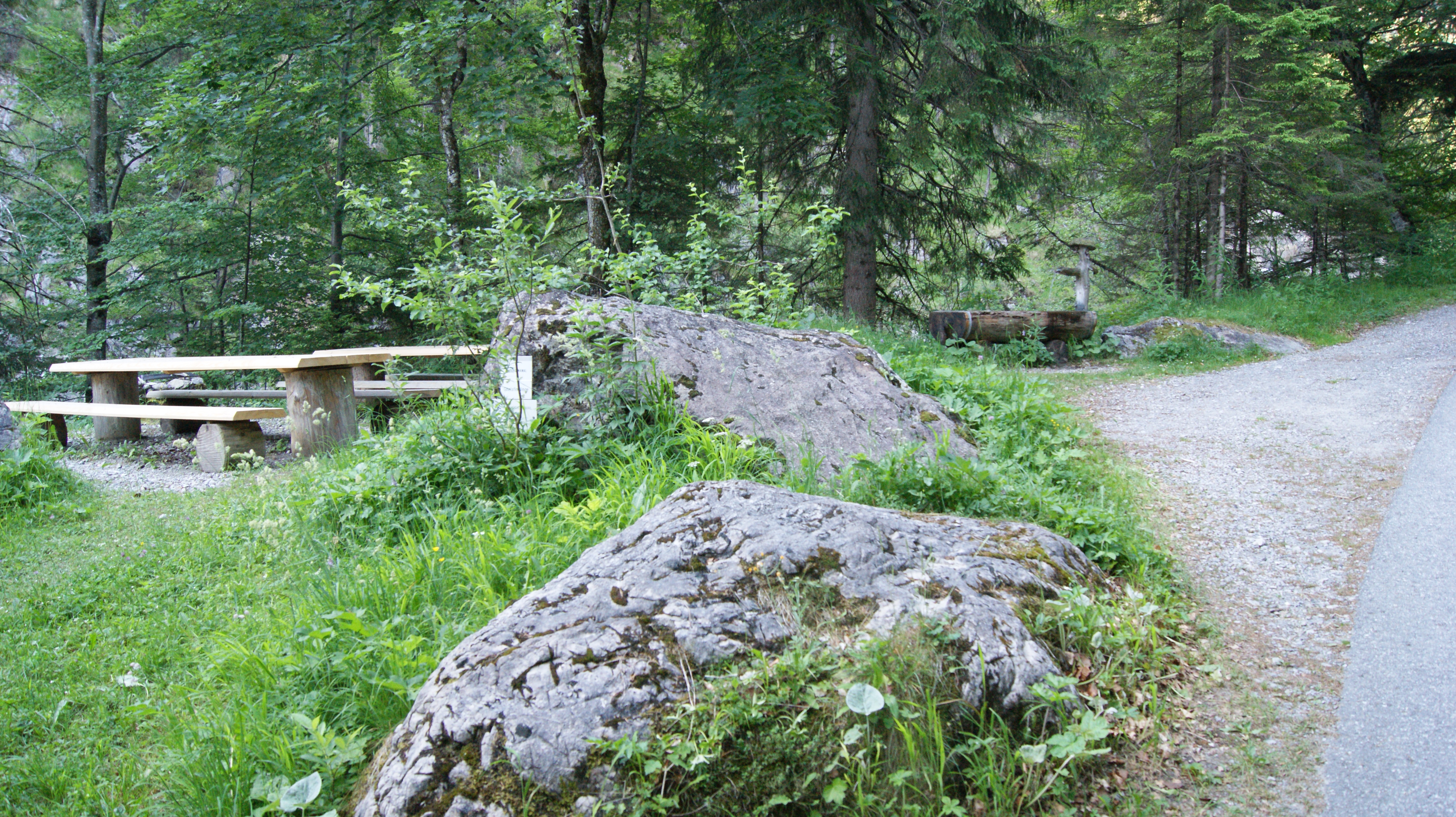 Erratic blocks out of Gneiss in the municipality of Nenzing (Vorarlberg, Austria), plot Kühbruck in the Mengschlucht (gorge) directly at the Gaperdonaweg (street).